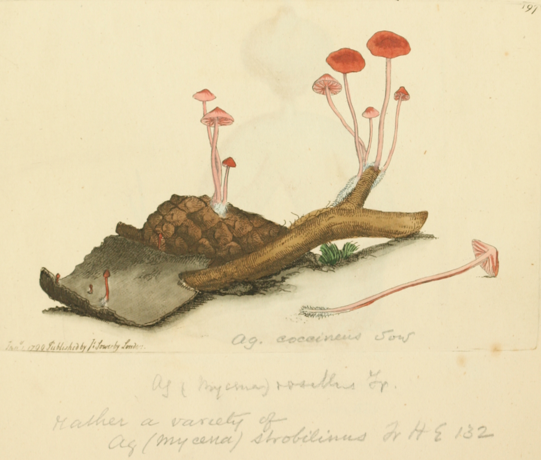 This is a plate from James Sowerby's Coloured Figures of English Fungi or Mushrooms.